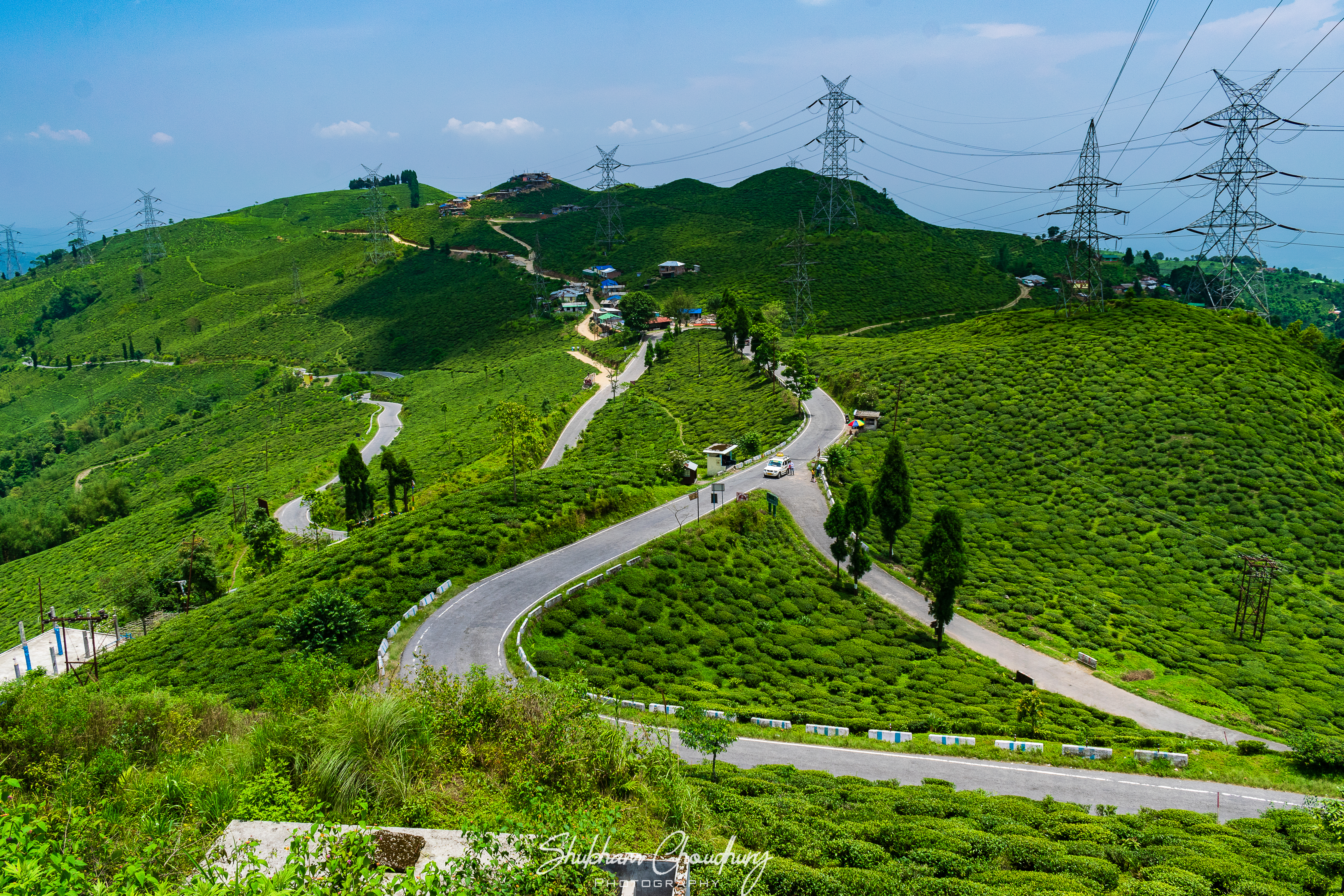 Scenic Beauty of Hilly Terrain and curvy Roads as seen from Tingling View Point.